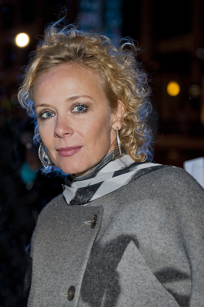 German actress Katja Riemann at the ARD DEGETO Blue Hour Party 2010